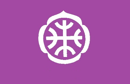 Flag of Tatebayashi Gunma